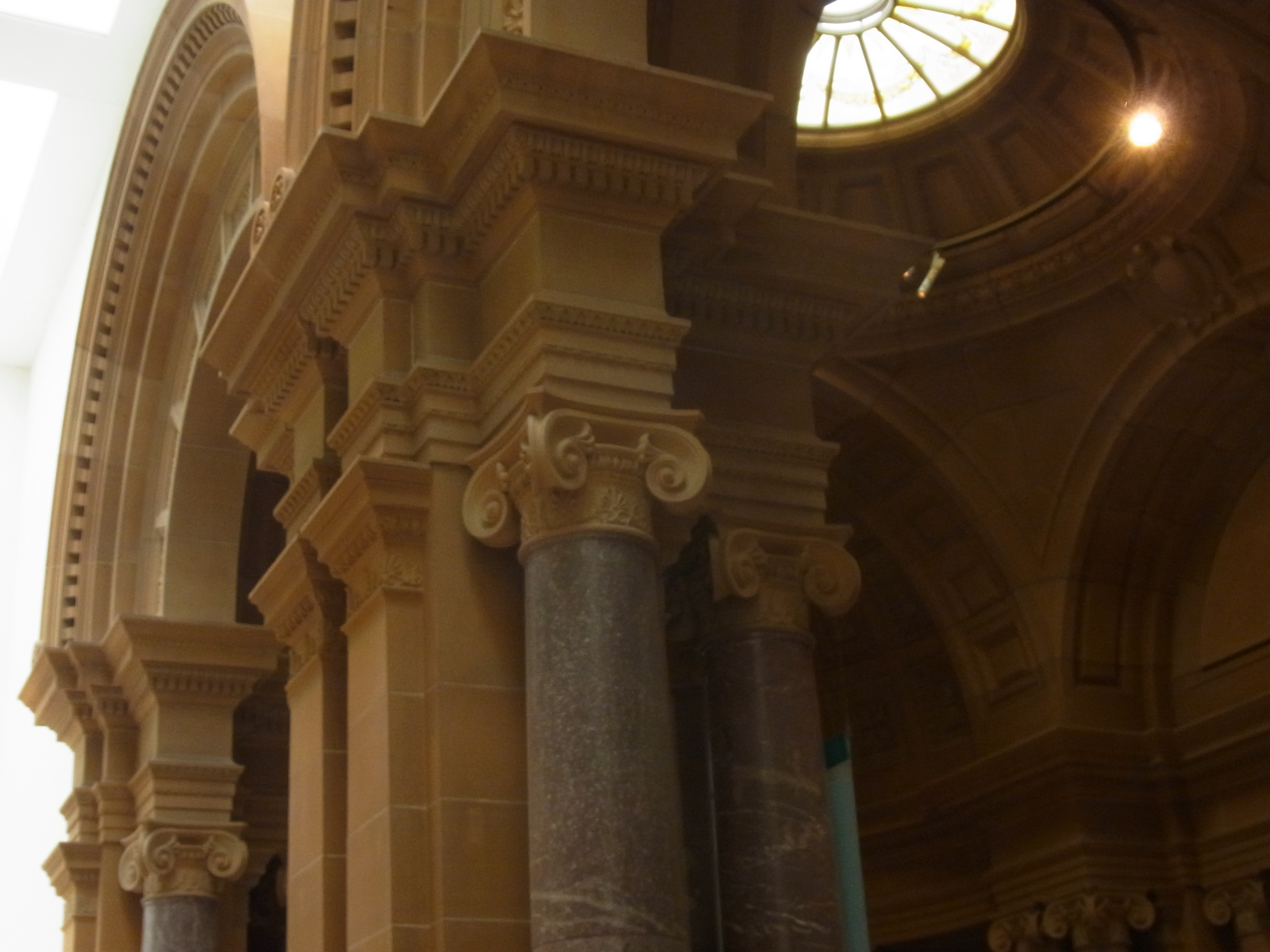 AGNSW-Stone arches inside oval entry lobby by Vernon.